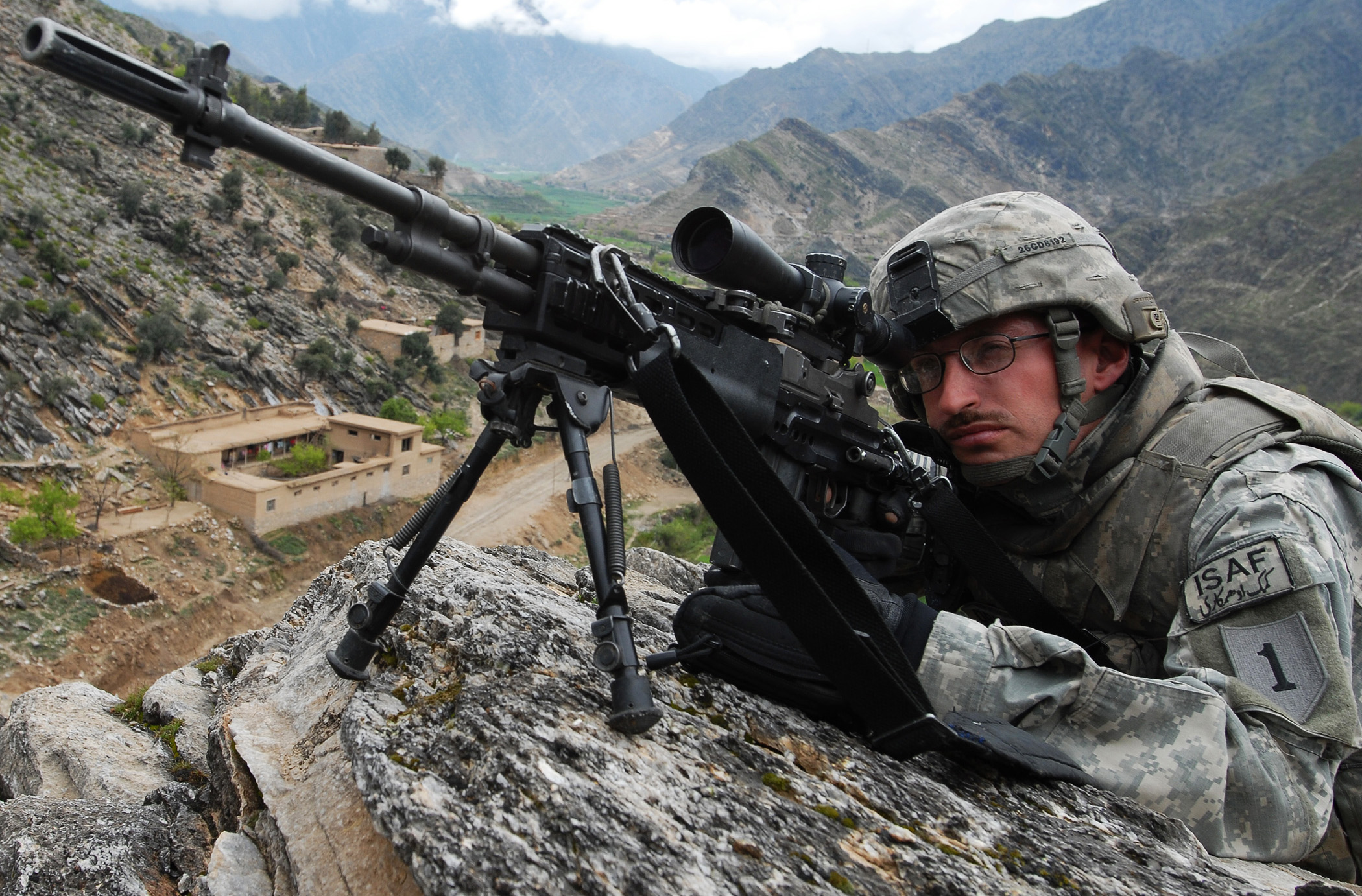 Pfc. William Drikell, scans the valley walls for suspicious activity during a combat patrol near the village of Walo Tangi, in Konar province, Afghanistan, April 6. Driskell is a member of 2nd Platoon, C. Company, 1st Battalion, 26th Infantry Regiment, 1st Infantry Division.